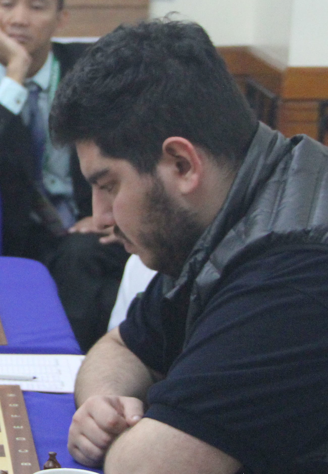 Lik Zang Lye of Malaysia (left) loses to Parham Maghsoodloo of Iran, 0-1, in Round 6 of the 17th Asian Continental Chess Championships (2nd Manny Pacquiao Cup Open) at the Tiara Hotel in Makati on Saturday (December 15, 2018).